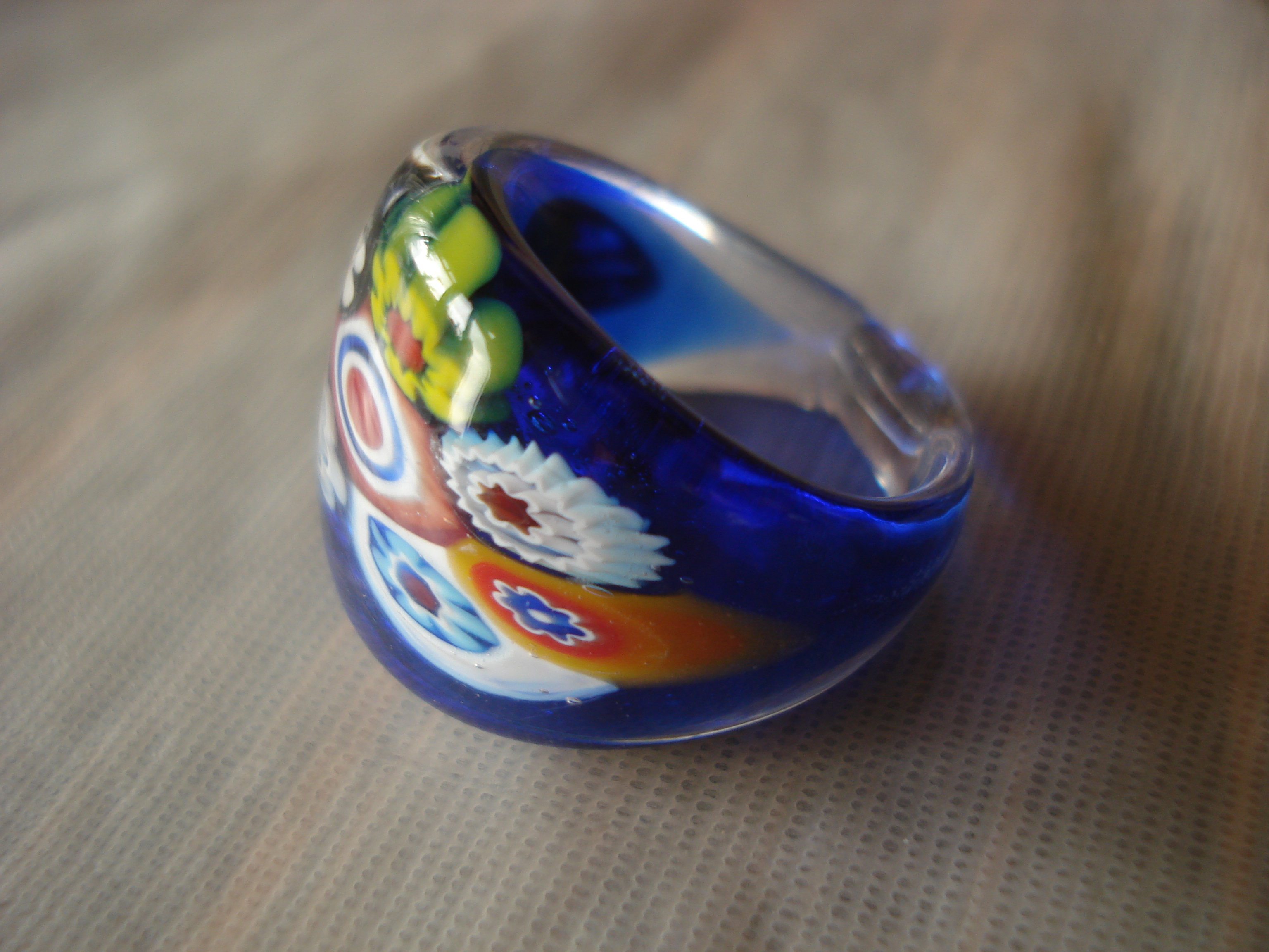 A finger ring made of glass in Murano.